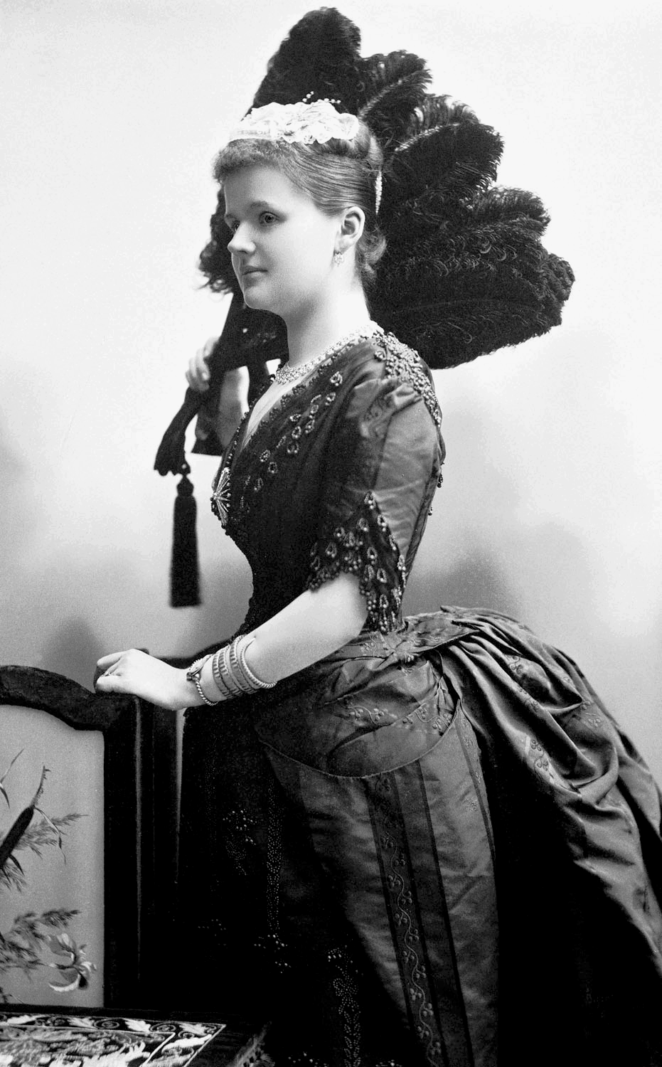 Princess Helena, Duchess of Albany (1861-1922), spouse of Prince Leopold, Duke of Albany (1853-1884)